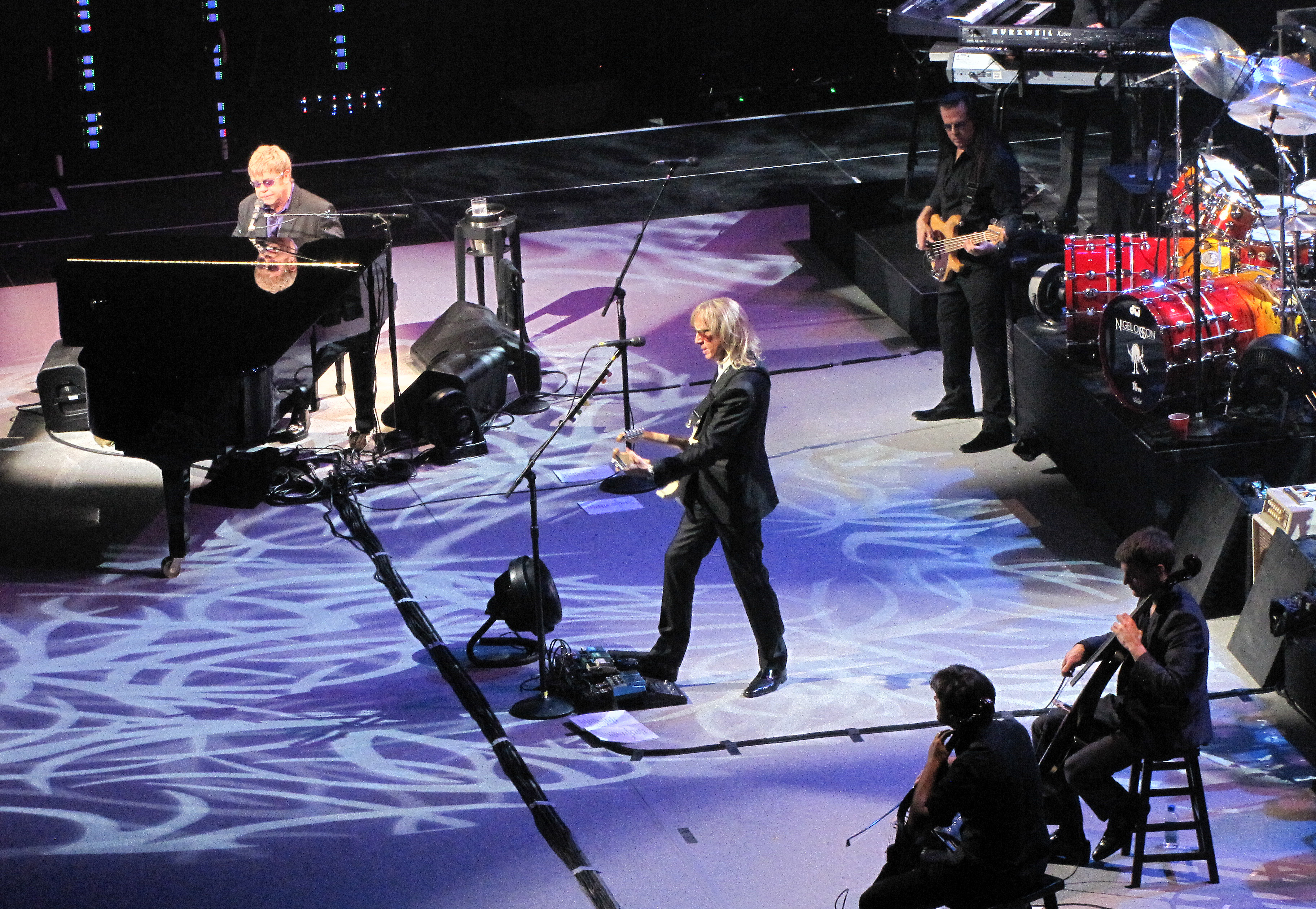 Elton John Band performing on March 15, 2012 at the Roanoke Civic Center Roanoke Virginia, USA